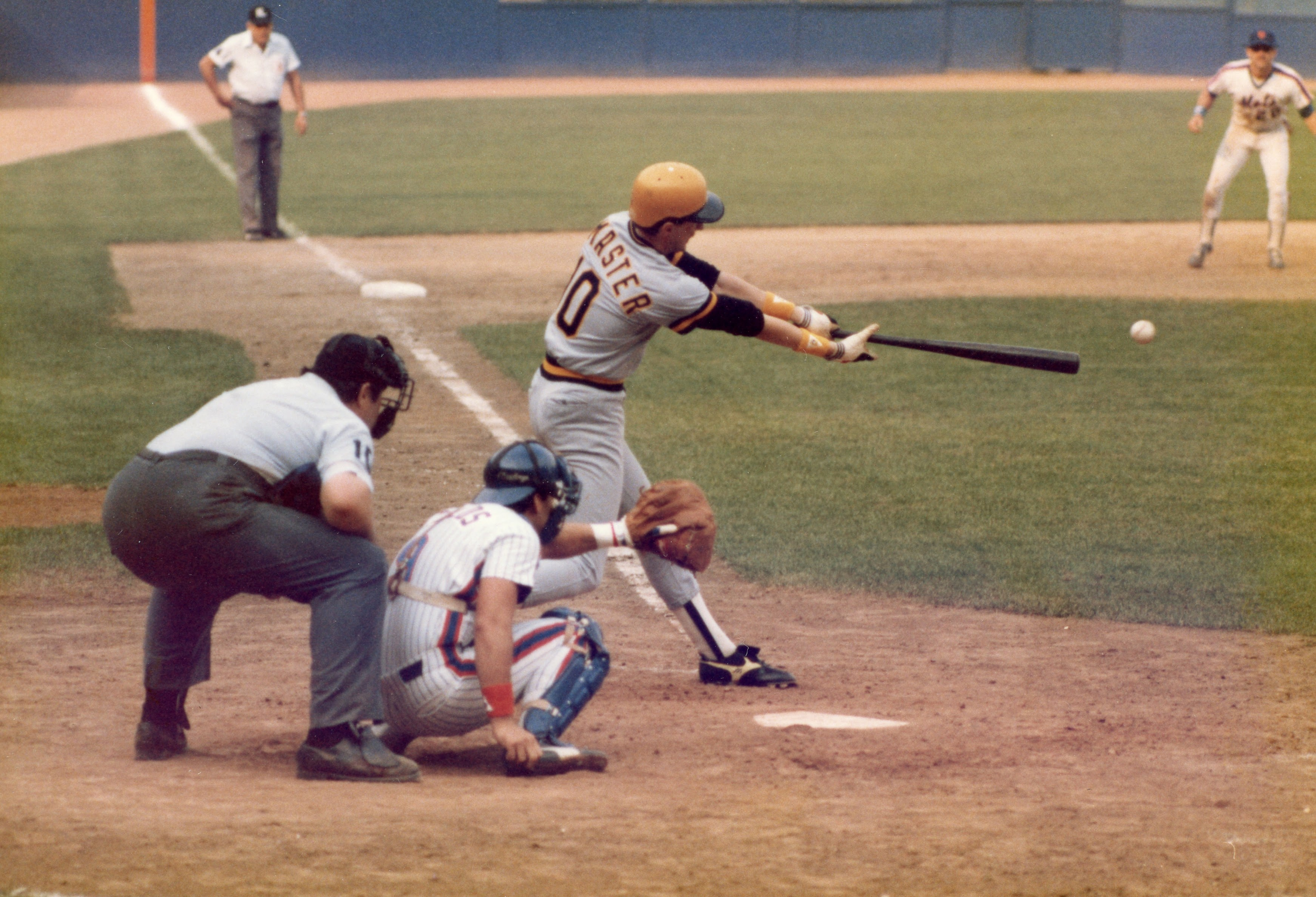 Johnnie LeMaster playing for the Pittsburgh Pirates in a game against the New York Mets at Shea Stadium on September 21, 1985